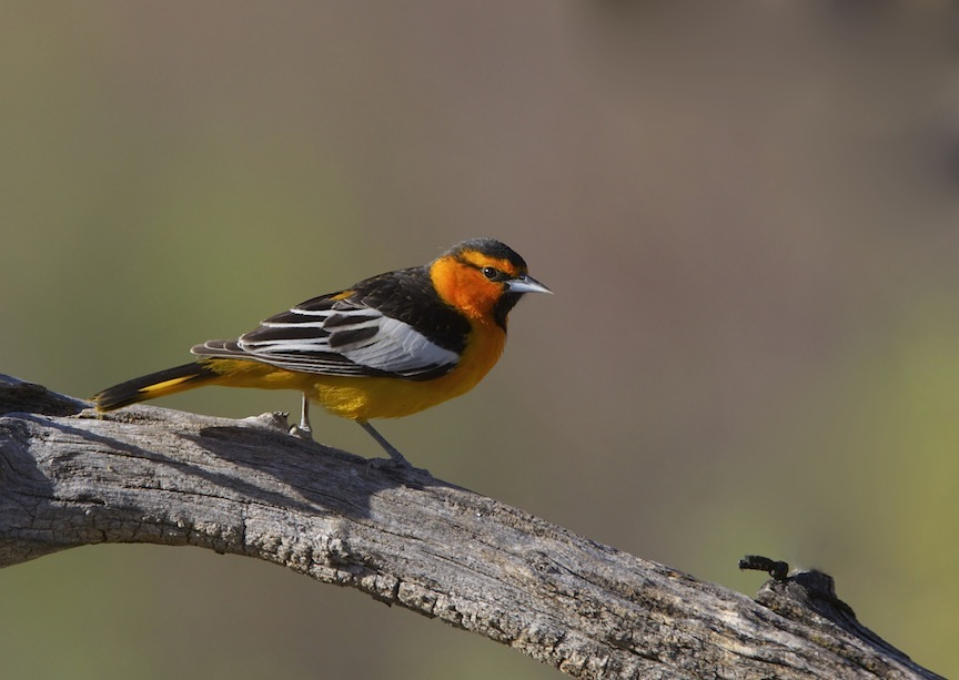 One of the cool things (well maybe not if you are truing to id this species) about Icterids is that immature males usually have the same plumage as adult females. Beware...